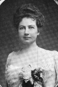 A formal photograph of a white woman in 1901, dressed in a beaded gown with flowers attached to the bodice.